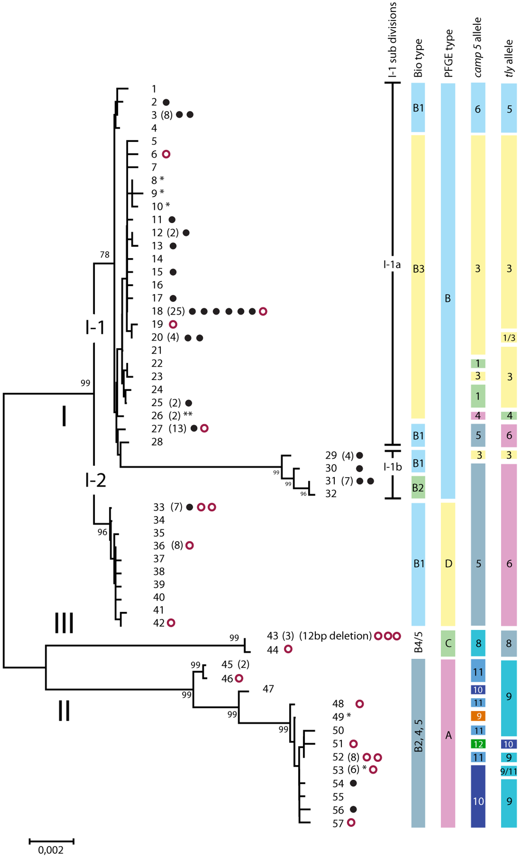 Population structure of P. acnes, evolution tree of 57 sequence types detected among 210 isolates. Each isolate from cases of severe acne is indicated by a filled black circle and isolates from infections in normally sterile tissues and blood are indicated by an open red circle. The bar represents the genetic distance.